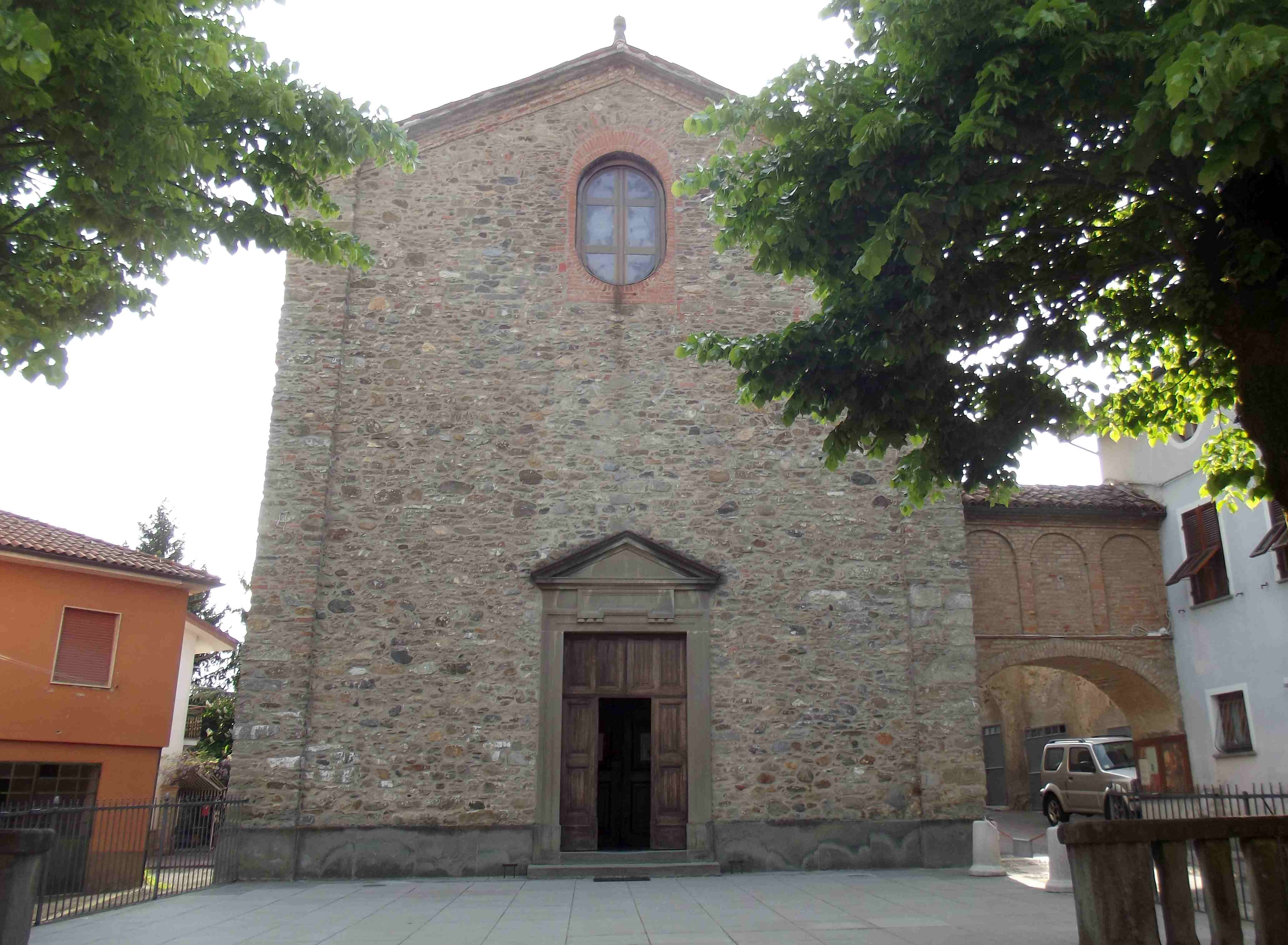 Rocchetta Cairo (Cairo Montenotte, SV, Italy): st. Andrew parish church